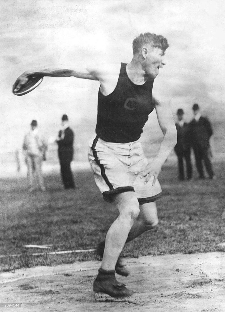 Jim Thorpe, Olympic gold medalist in the decathlon during the 1912 summer Olympics in Stockholm, Sweden